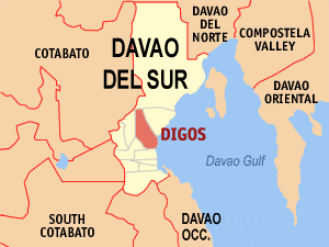 Map of the Davao del Sur showing the location of Digos City